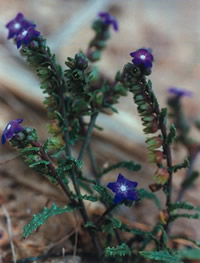 According to IUCN/SSC specialists this is one of the most endangered species of island floras in the Mediterranean area.